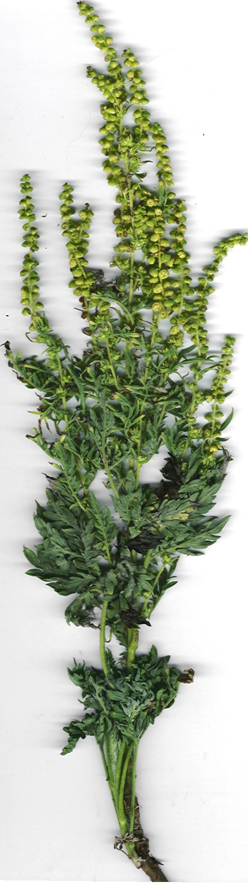 Ambrosia artemisiifolia (branch). Location: Maui, Waihee